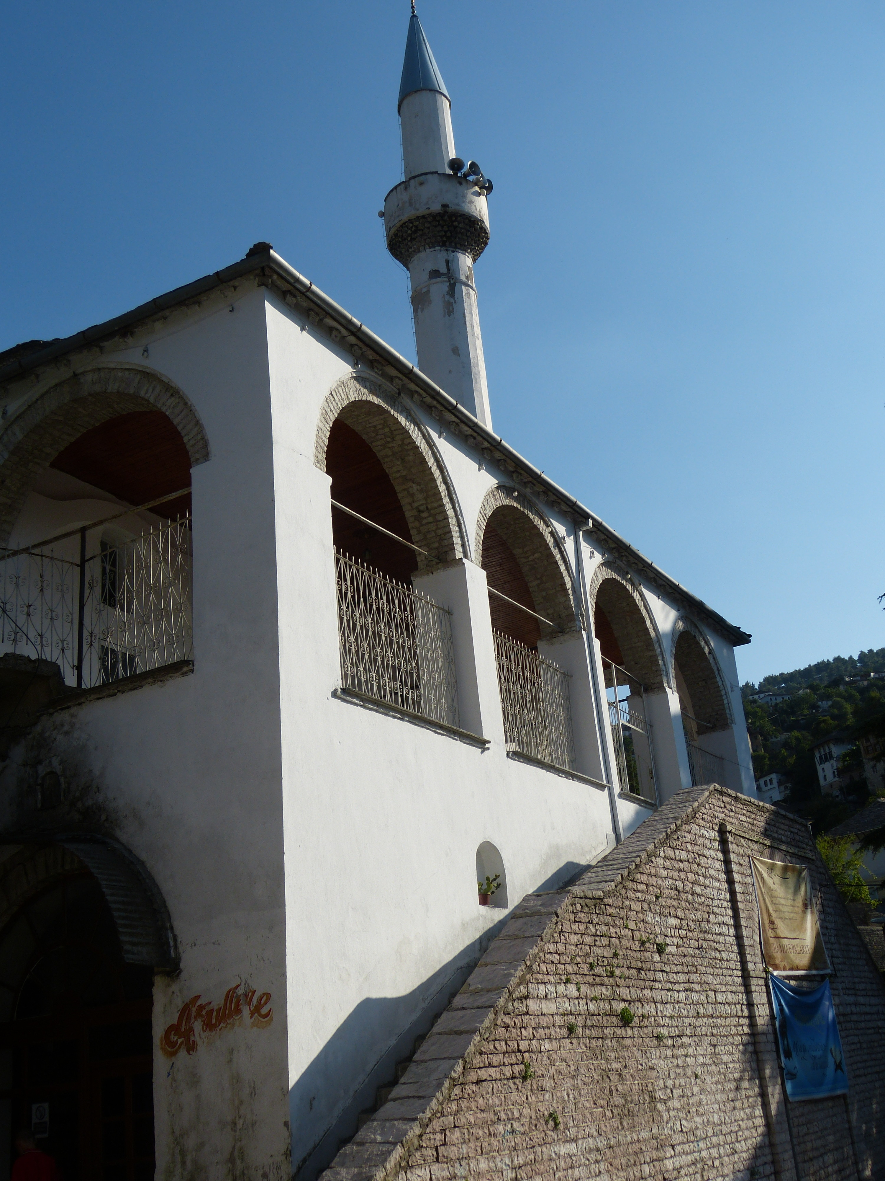 Gjirokastër ( Albania ). Bazar Mosque ( 1757 ).